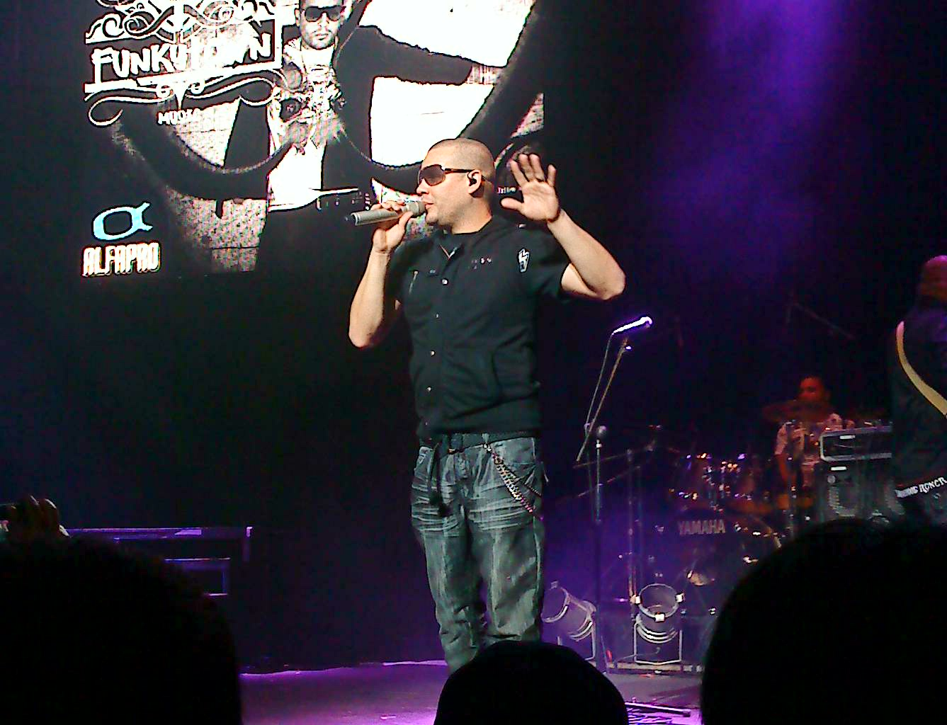 funky en el teatro caupolican, chile